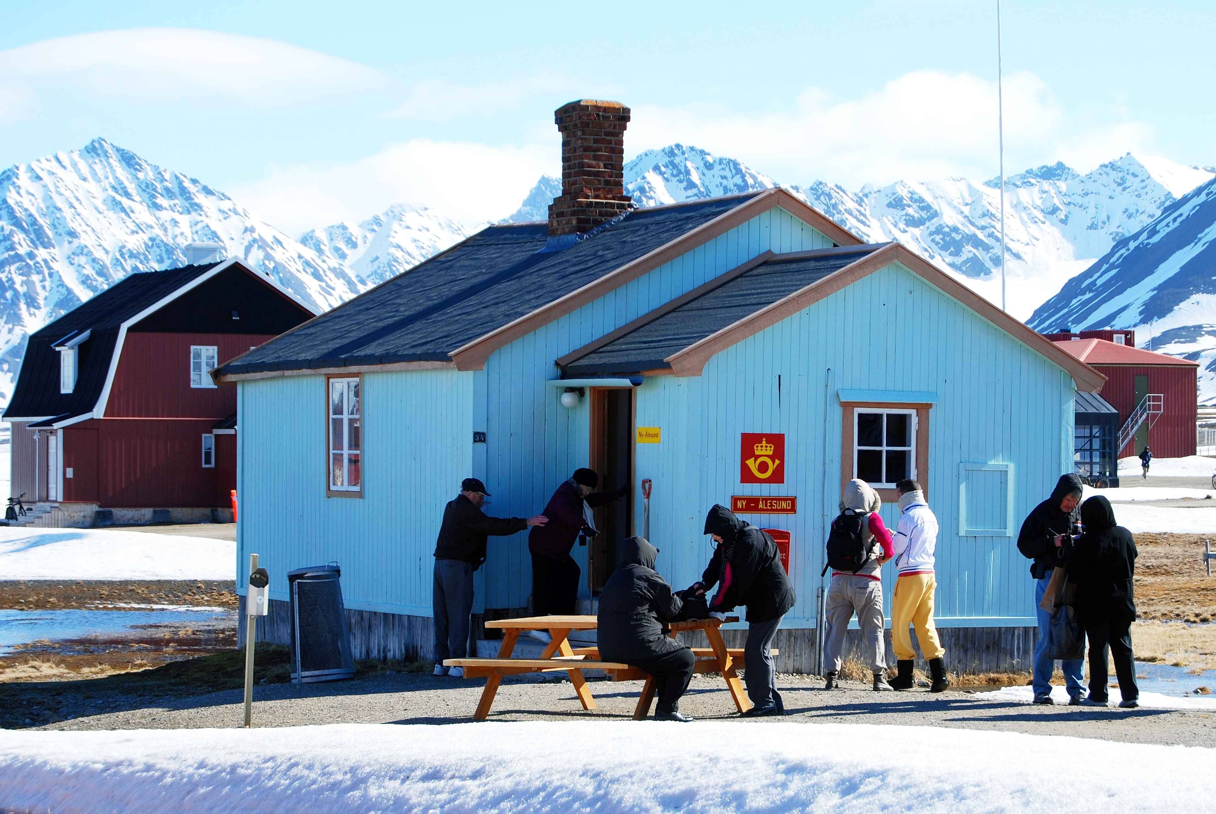 Ny-Ålesund is one of the four permanent settlements on the island of Spitsbergen in the Svalbard archipelago. It is one of the world's northernmost functional public settlement at 78°55′N 11°56′E inhabited by a permanent population of approximately 30–35 scientists and support staff